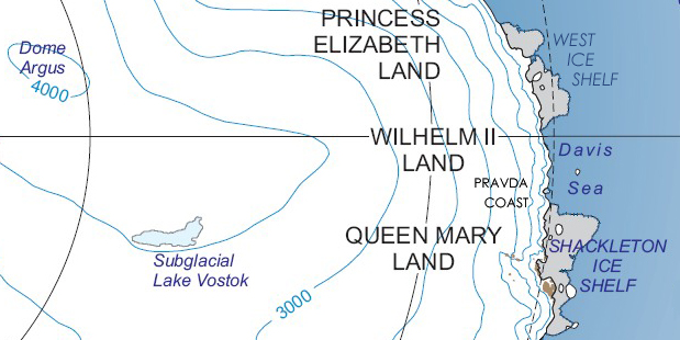 Princess Elizabeth Land, Wilhelm II Land and Queen Mary Land on East Antarctica map (in English)